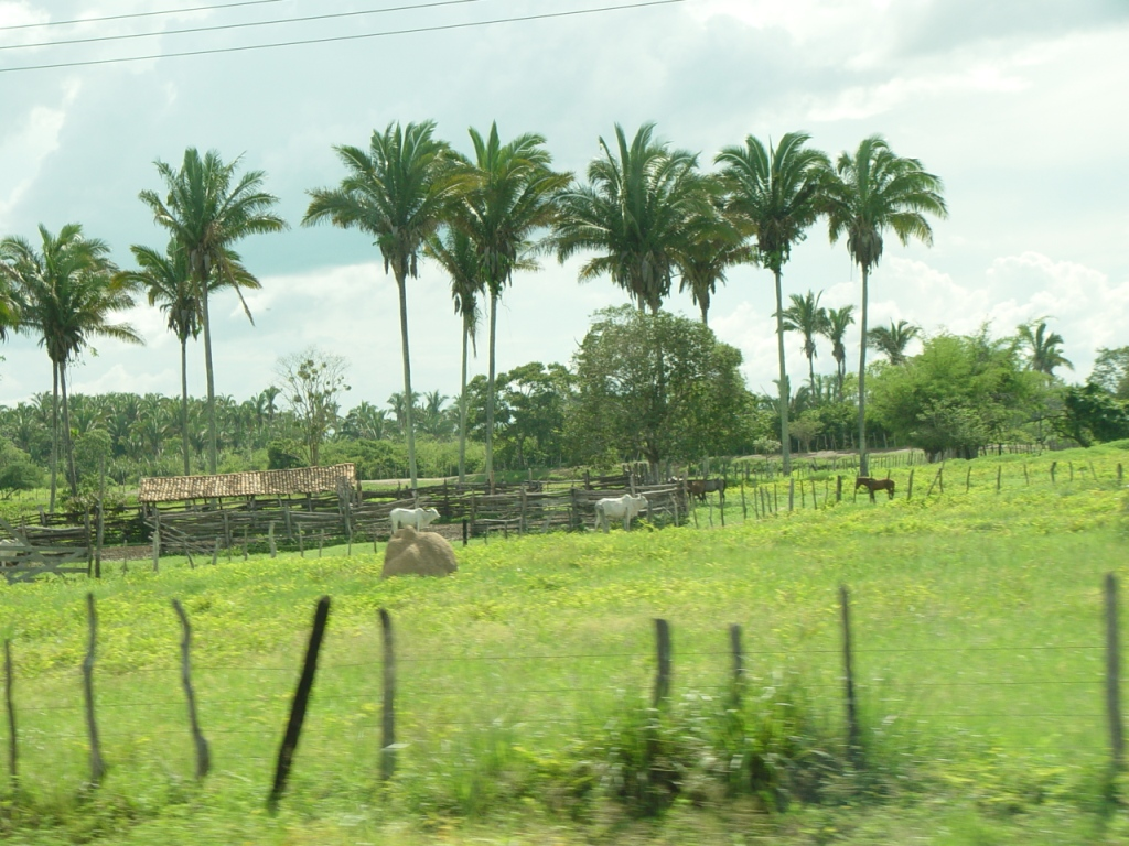 Attalea speciosa on a farm in Maranhão state, Brazil